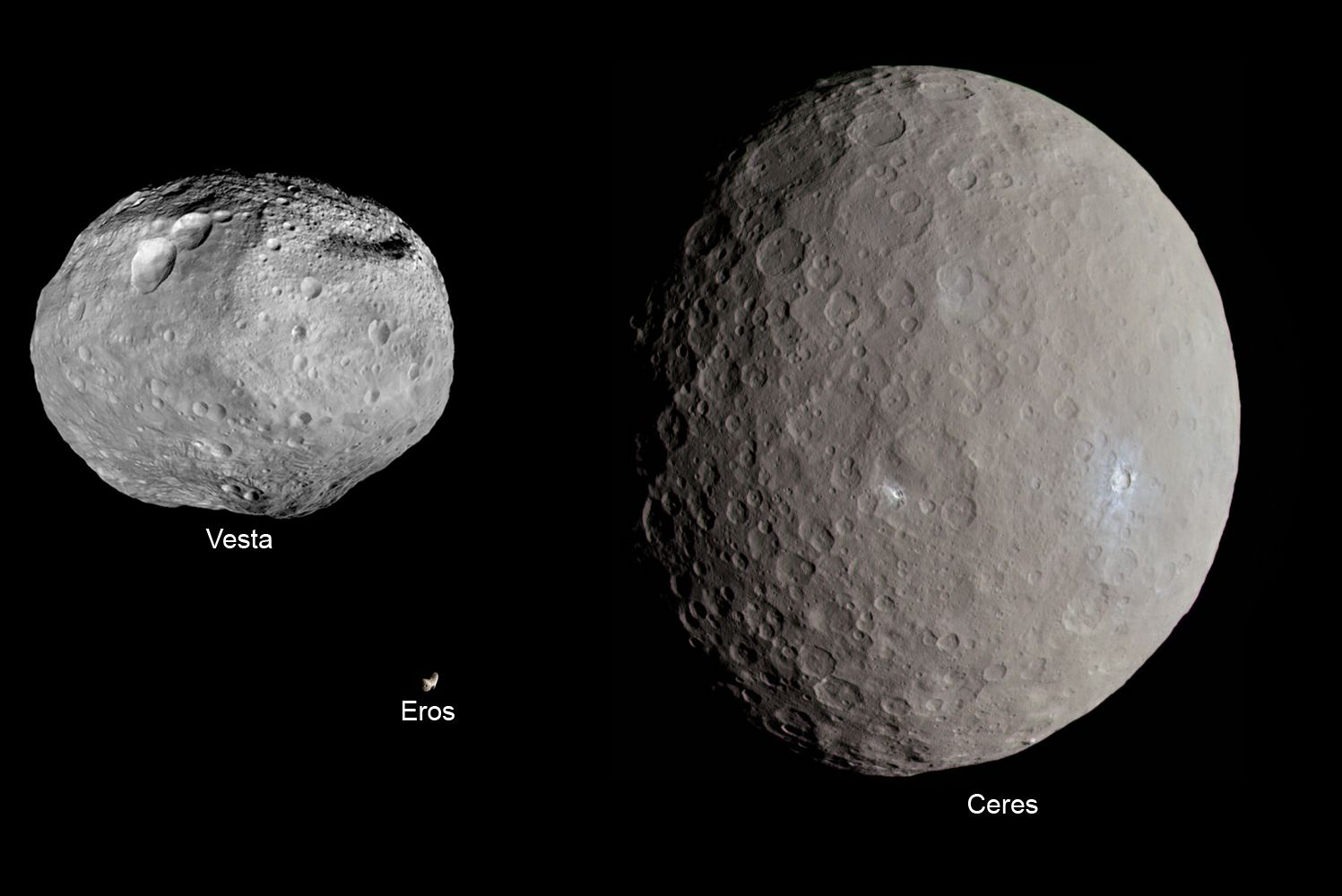 The size comparison of the asteroids are Ceres, Vesta, and Eros.